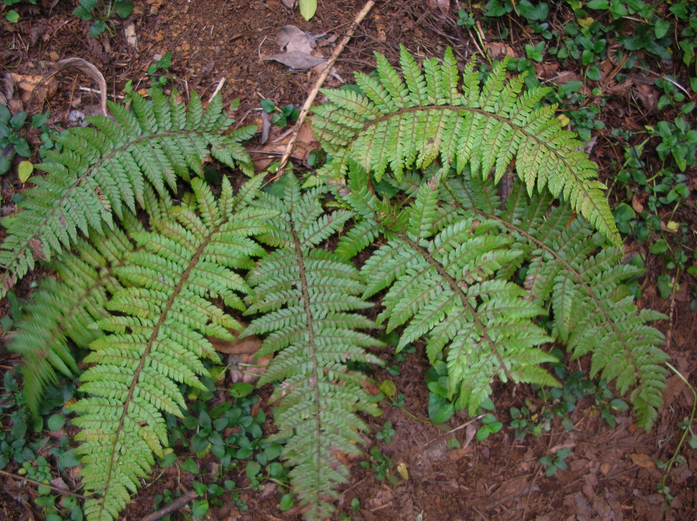 Polystichum haleakalense (Plum trail). Location: Maui, Polipoli